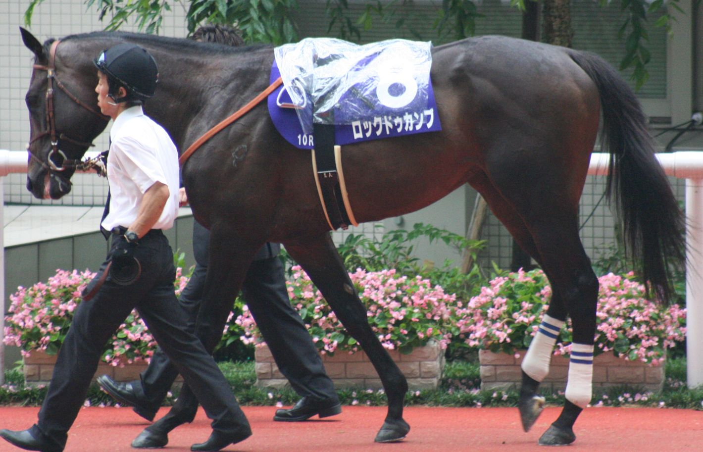 Roc de Cambes(horse, Hanshin Racecourse)